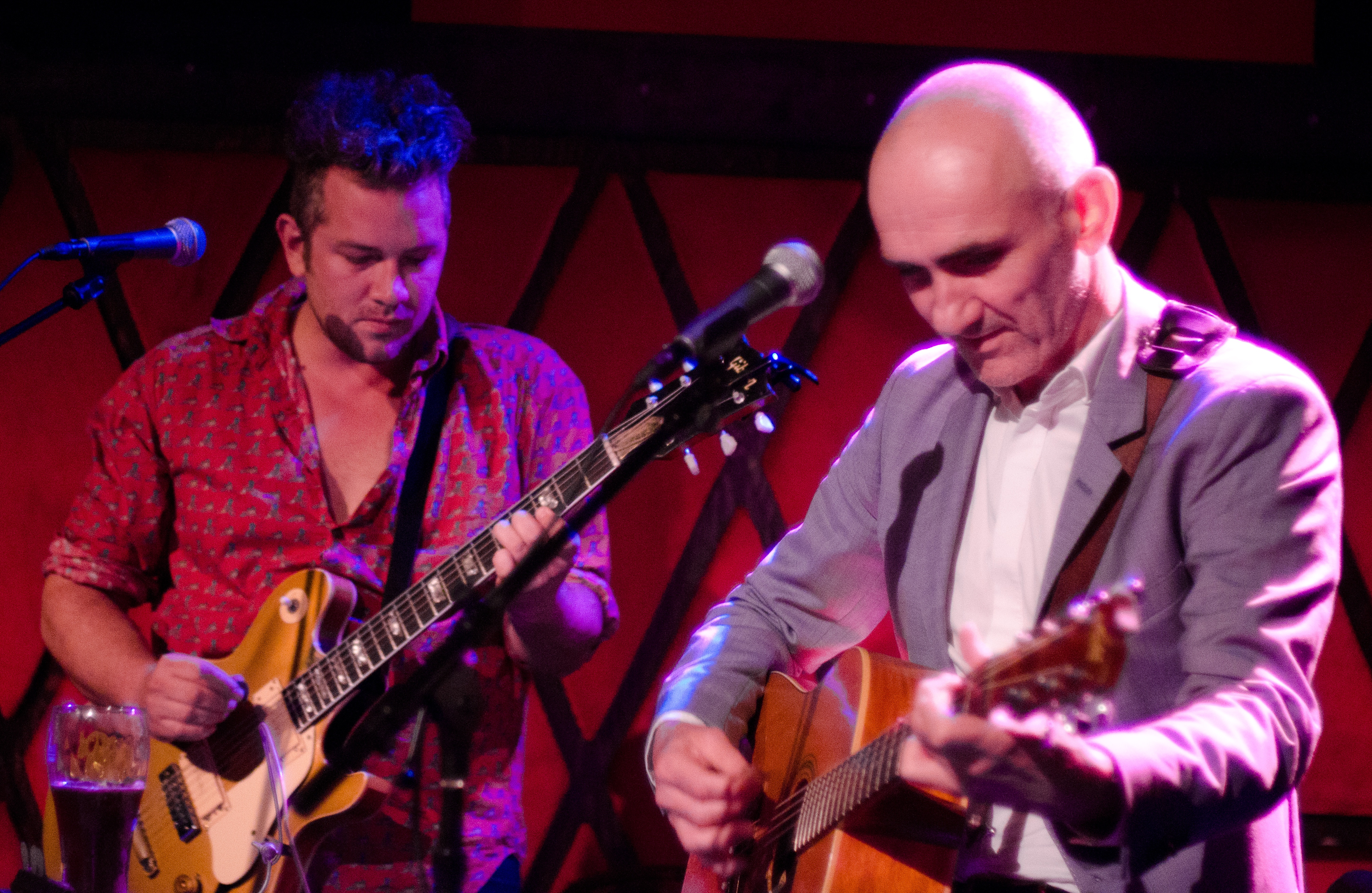 Paul Kelly and Dan Kelly performing "The A-Z Shows" at Rockwood Music Hall in New York City, September 27, 2011.